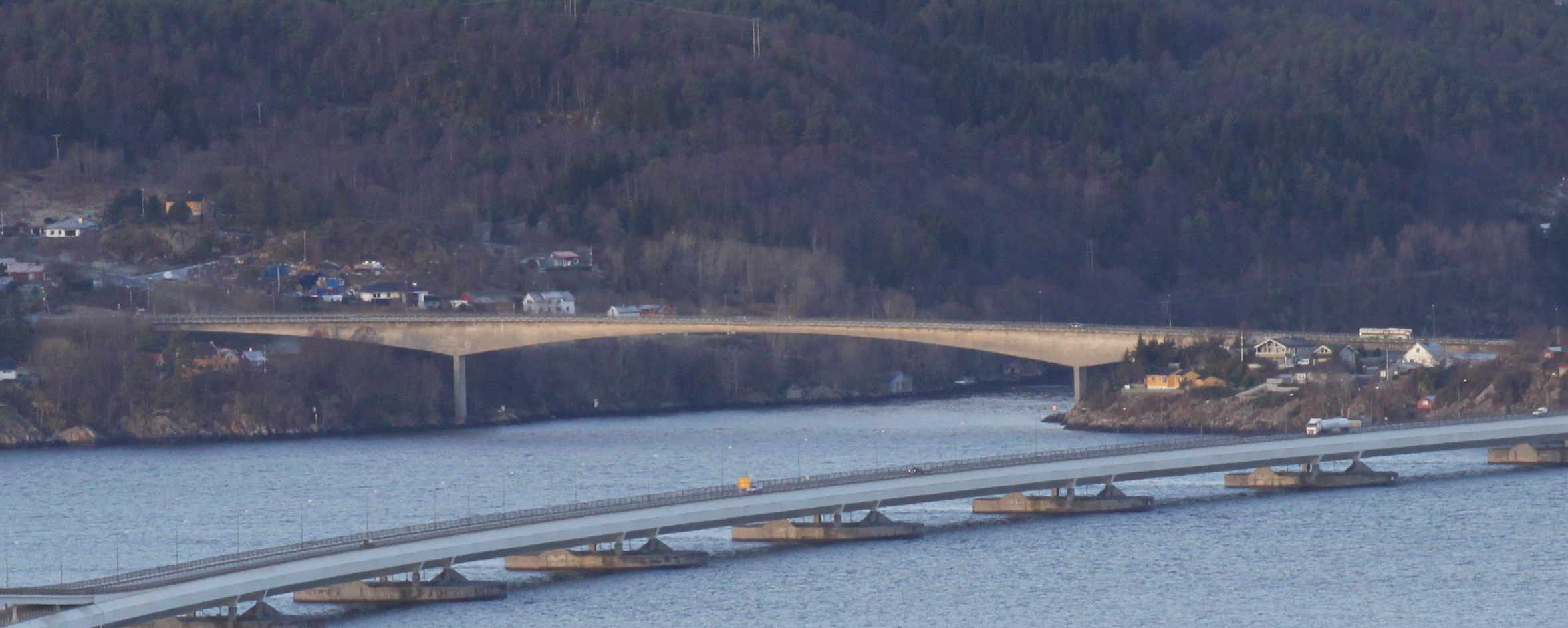 Krossnessundet bridge in Hordaland, Norway. Nordhordlandsbrua in front.